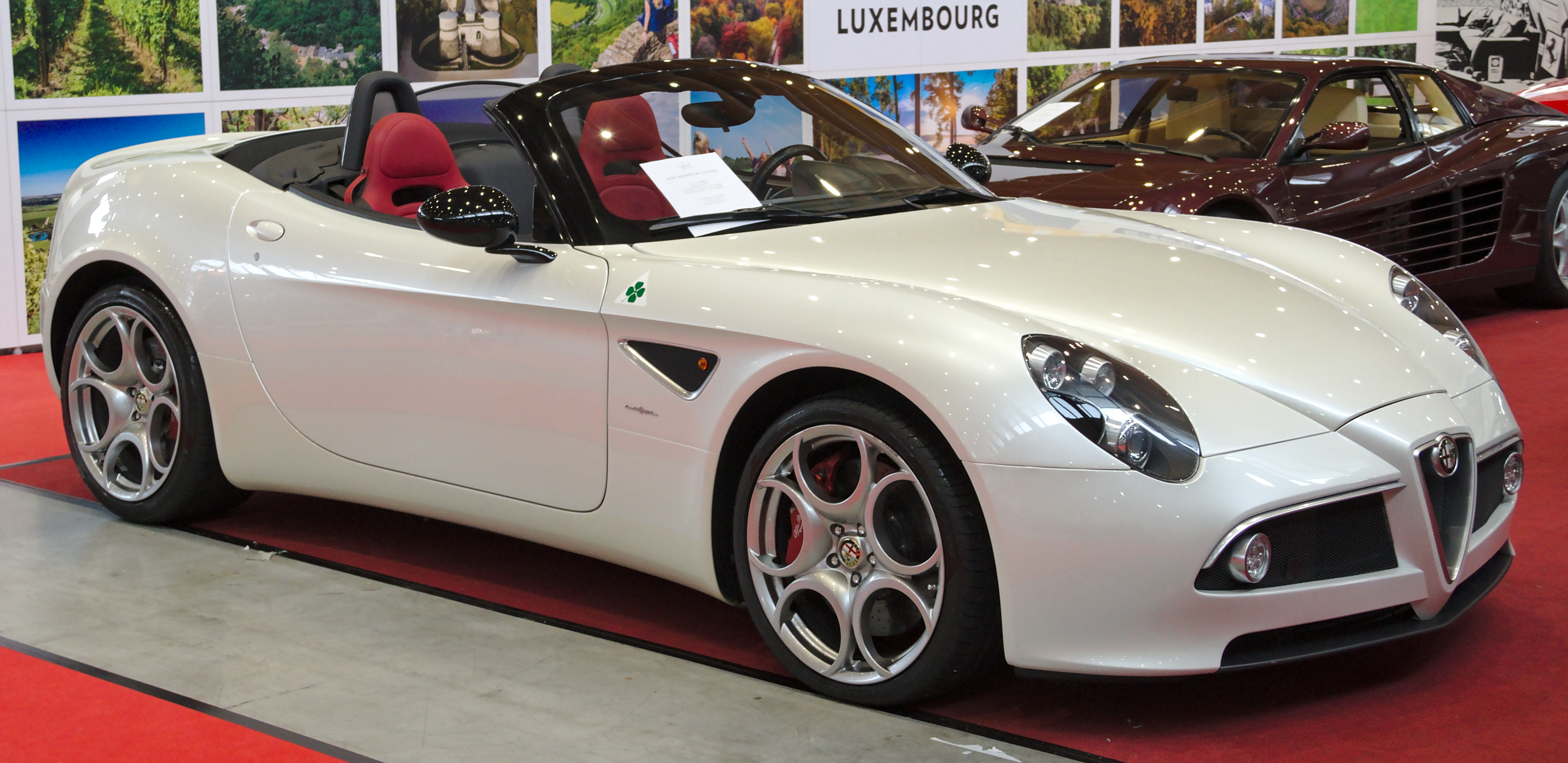 Alfa_Romeo_8C_Spider at Retro Classics 2020